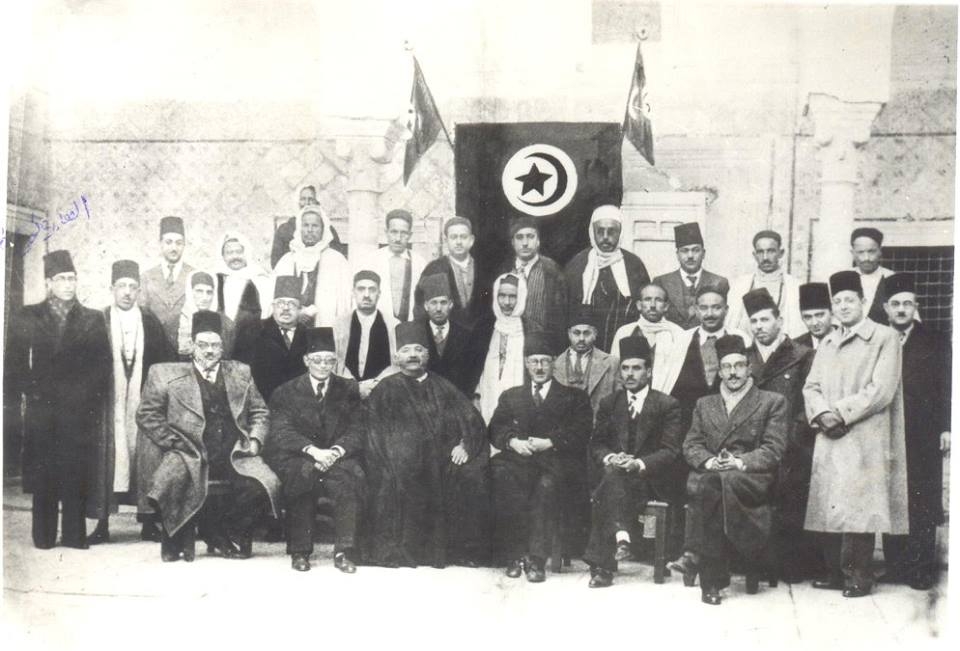 Congress of the Neo-Destour party in 1937.